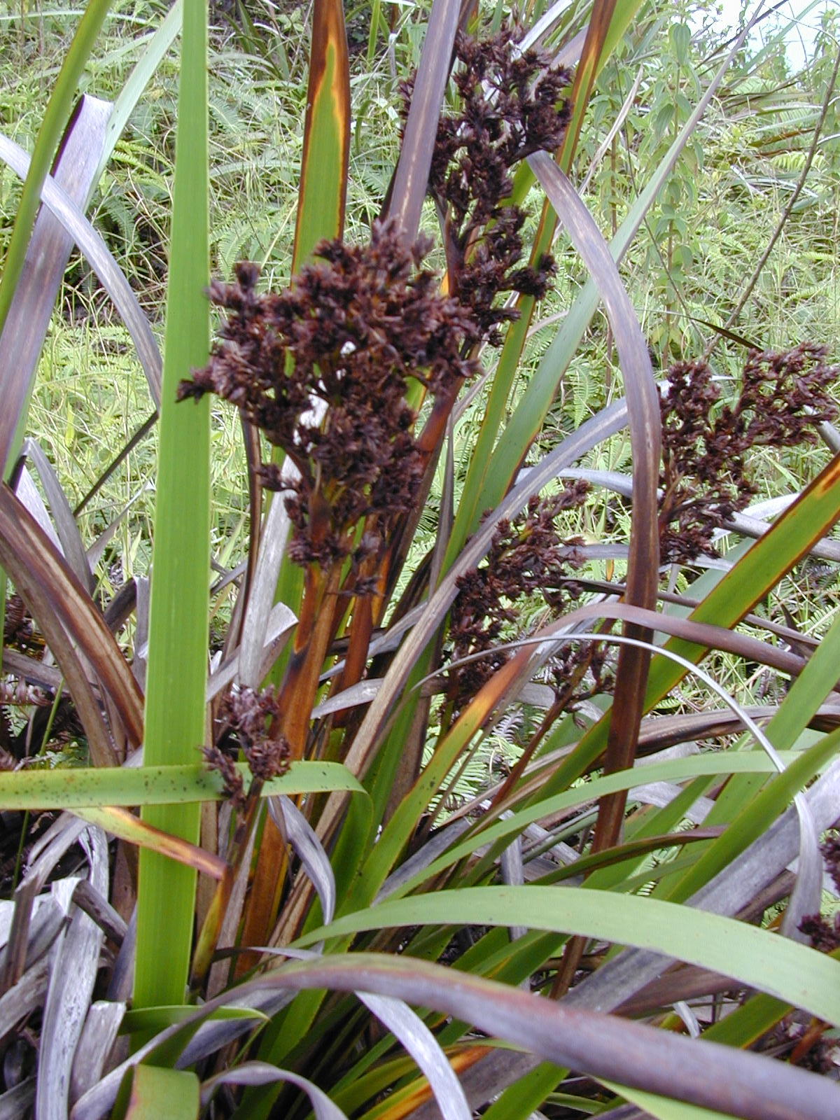 Machaerina angustifolia (fruits). Location: Maui, Waihee Ridge Trail